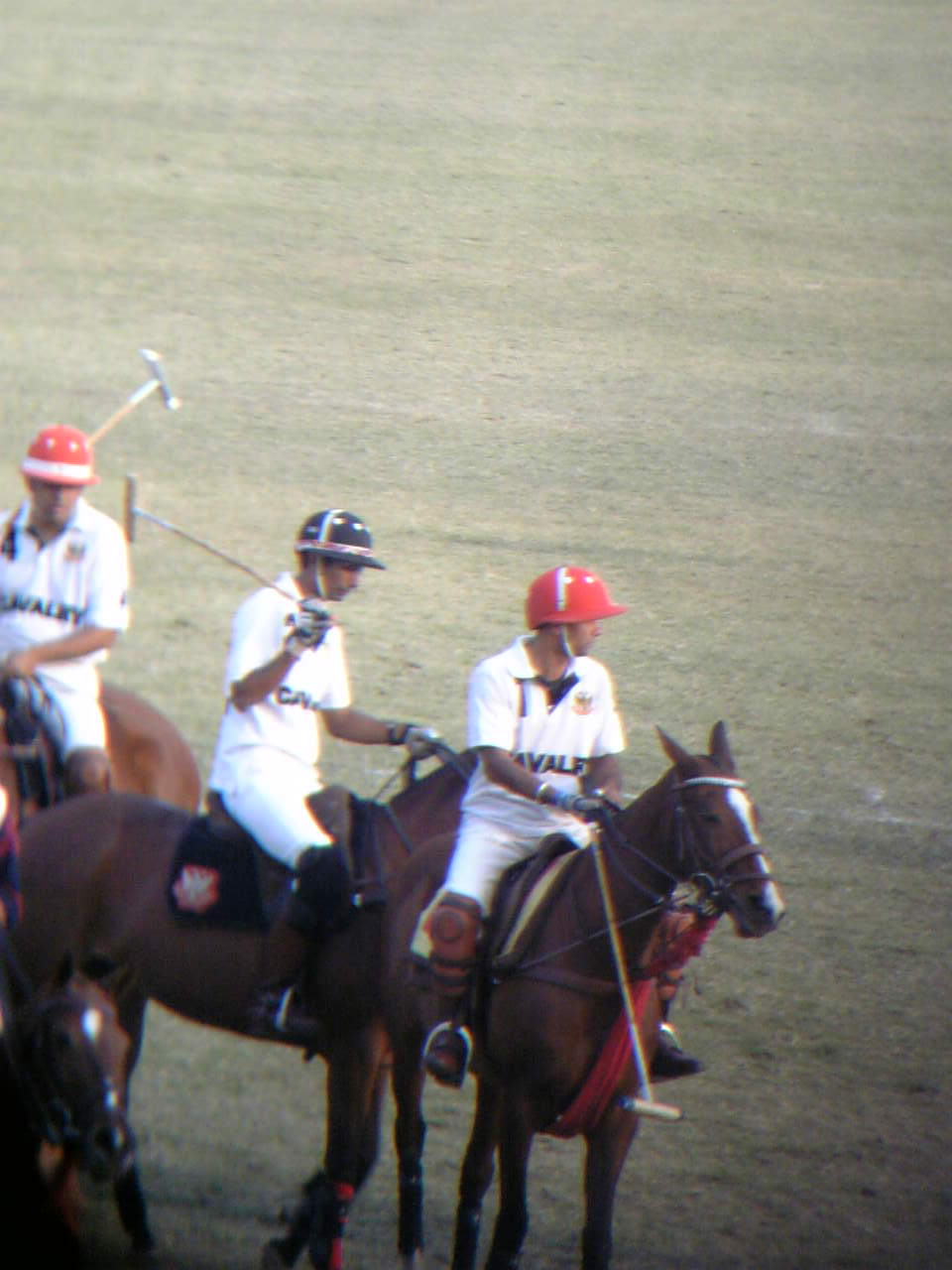 A game of Polo in Jaipur, Rajasthan, India